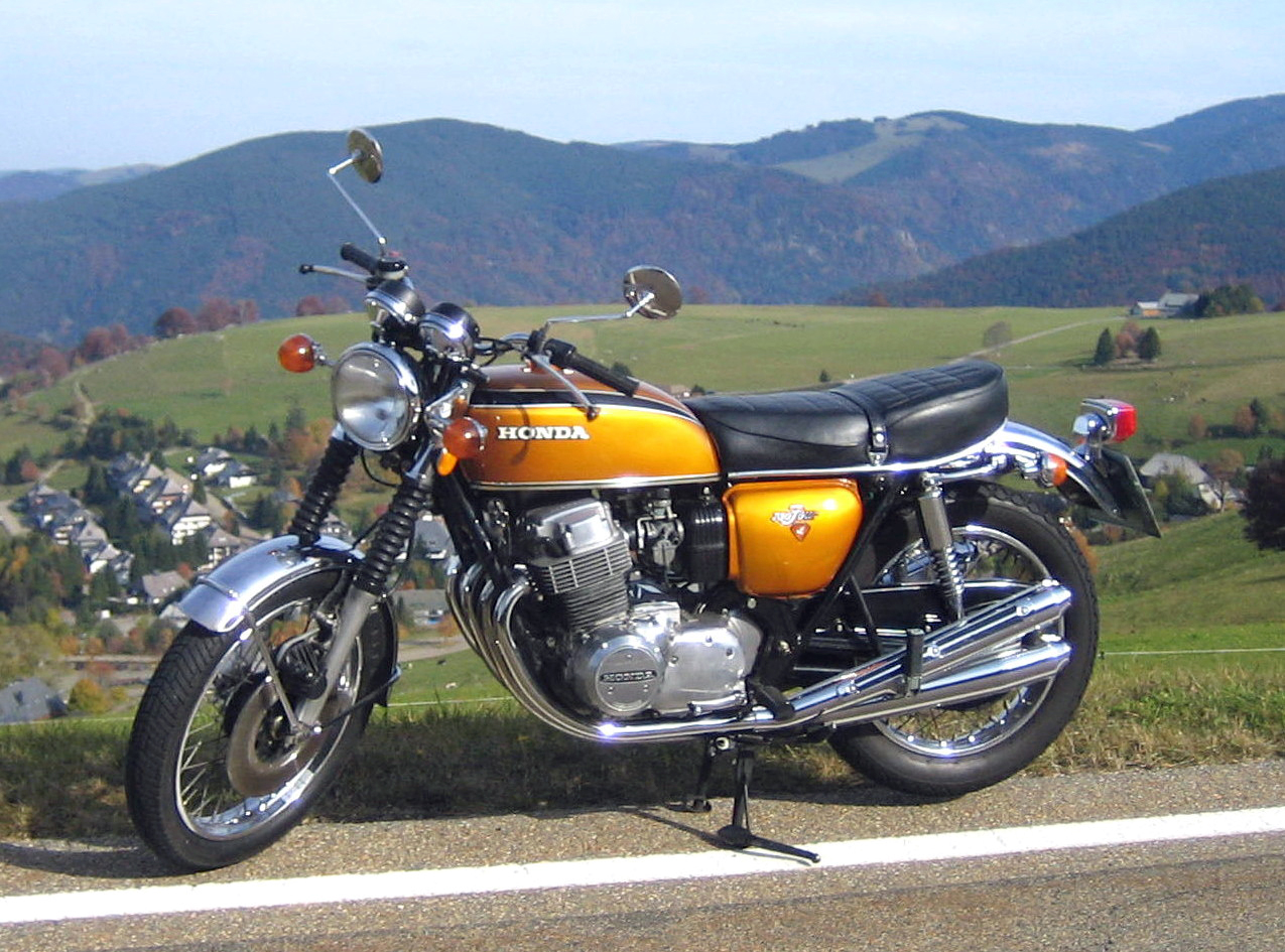 HONDA CB 750 Four K2 left